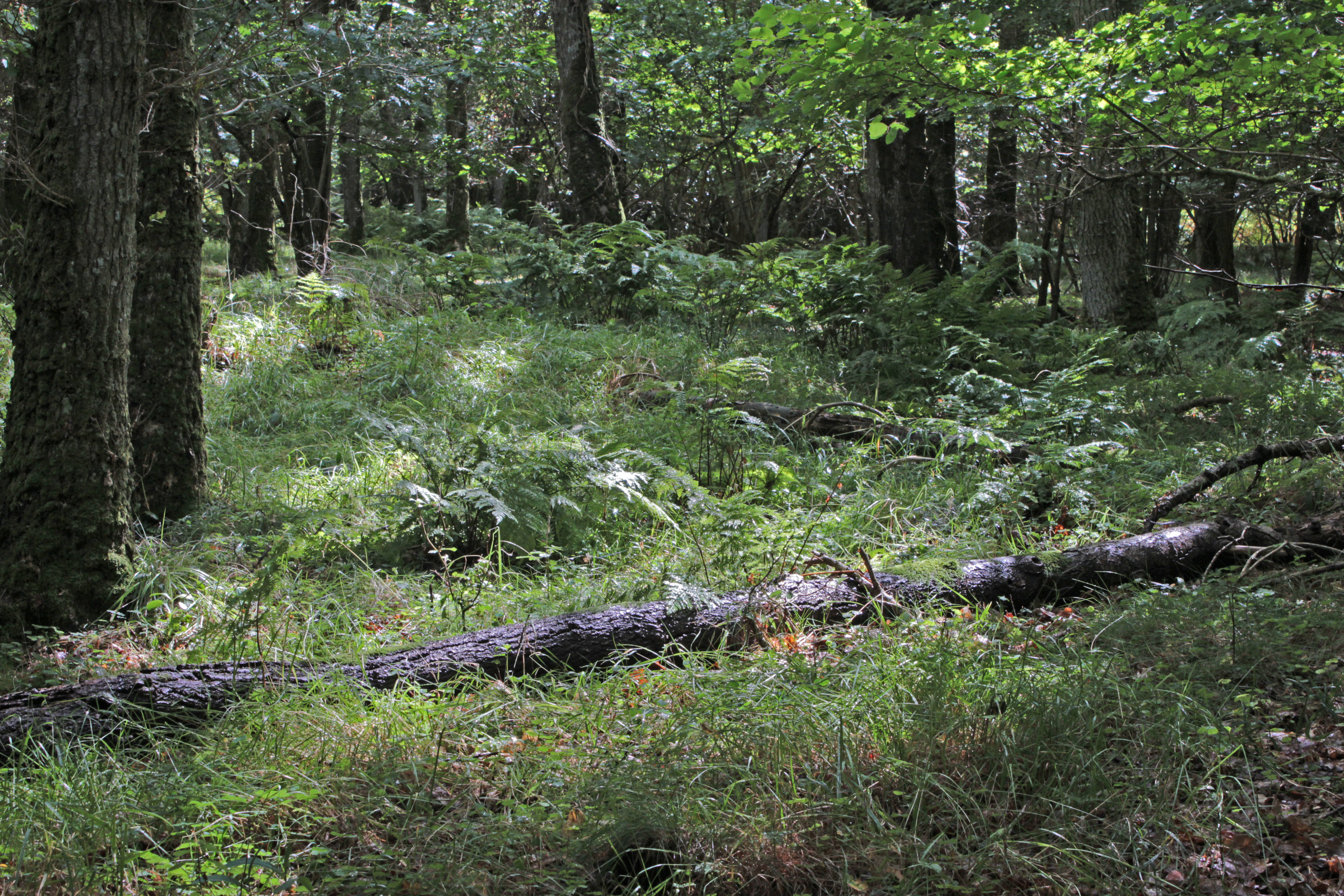 Kås Hoved (Skive Kommune, Denmark): Original temperate forest with Quercus petraea as the dominating species.